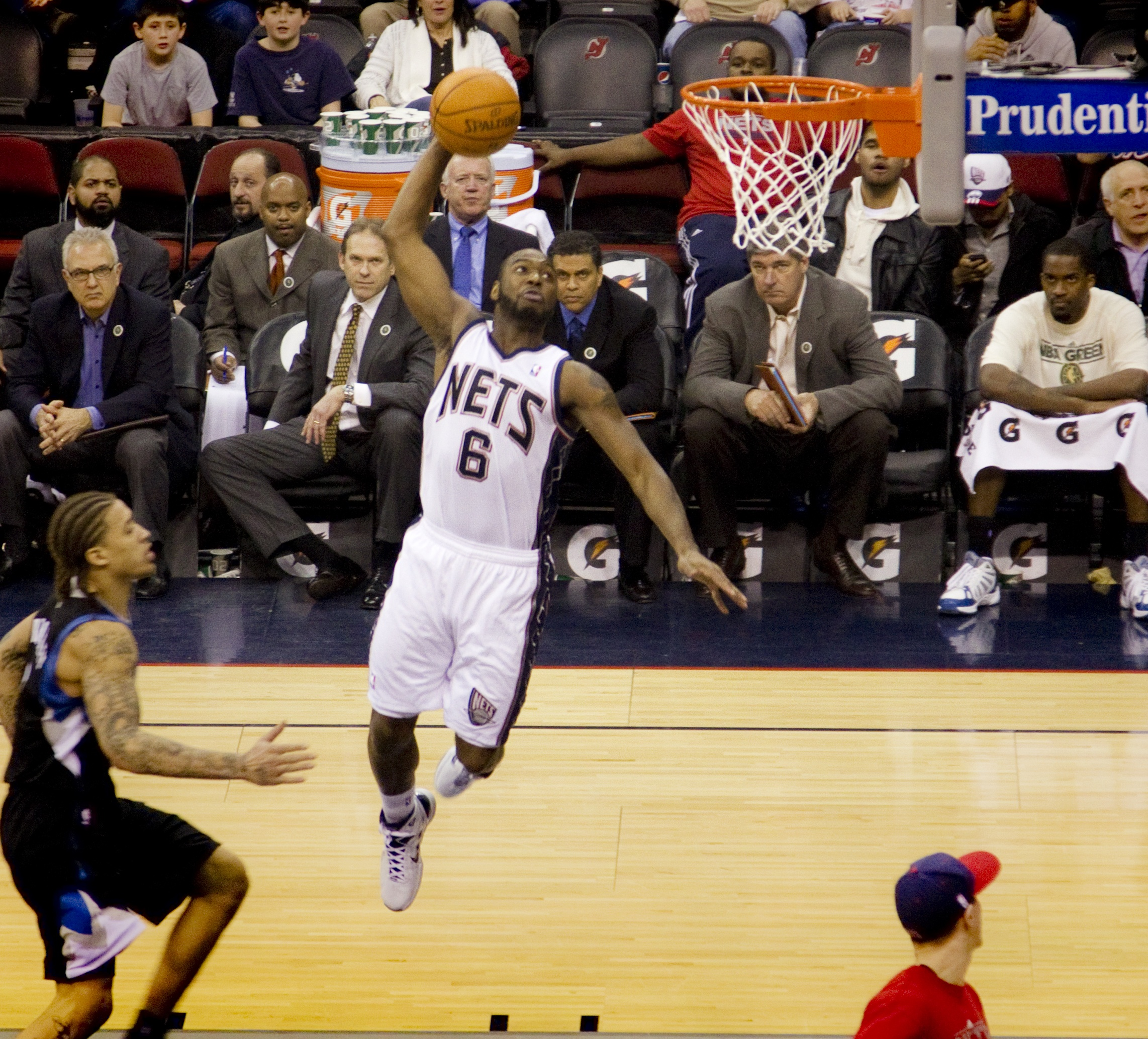 Mario West of the New Jersey Nets. NJ Nets - Minnesota Timberwolves at Prudential Center. 2011-03-31 - 2011-04-07